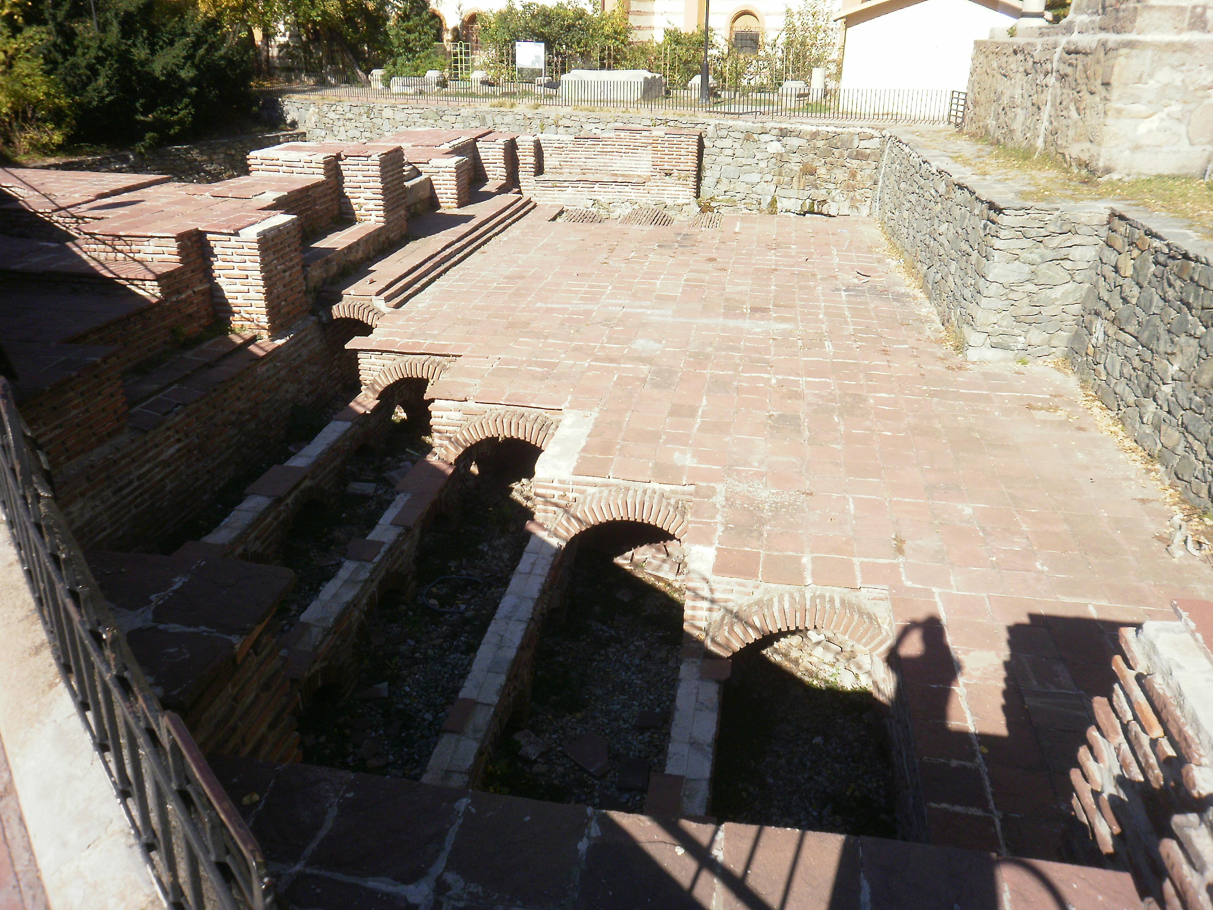 Roman thermae complex in Kyustendil, Bulgaria.